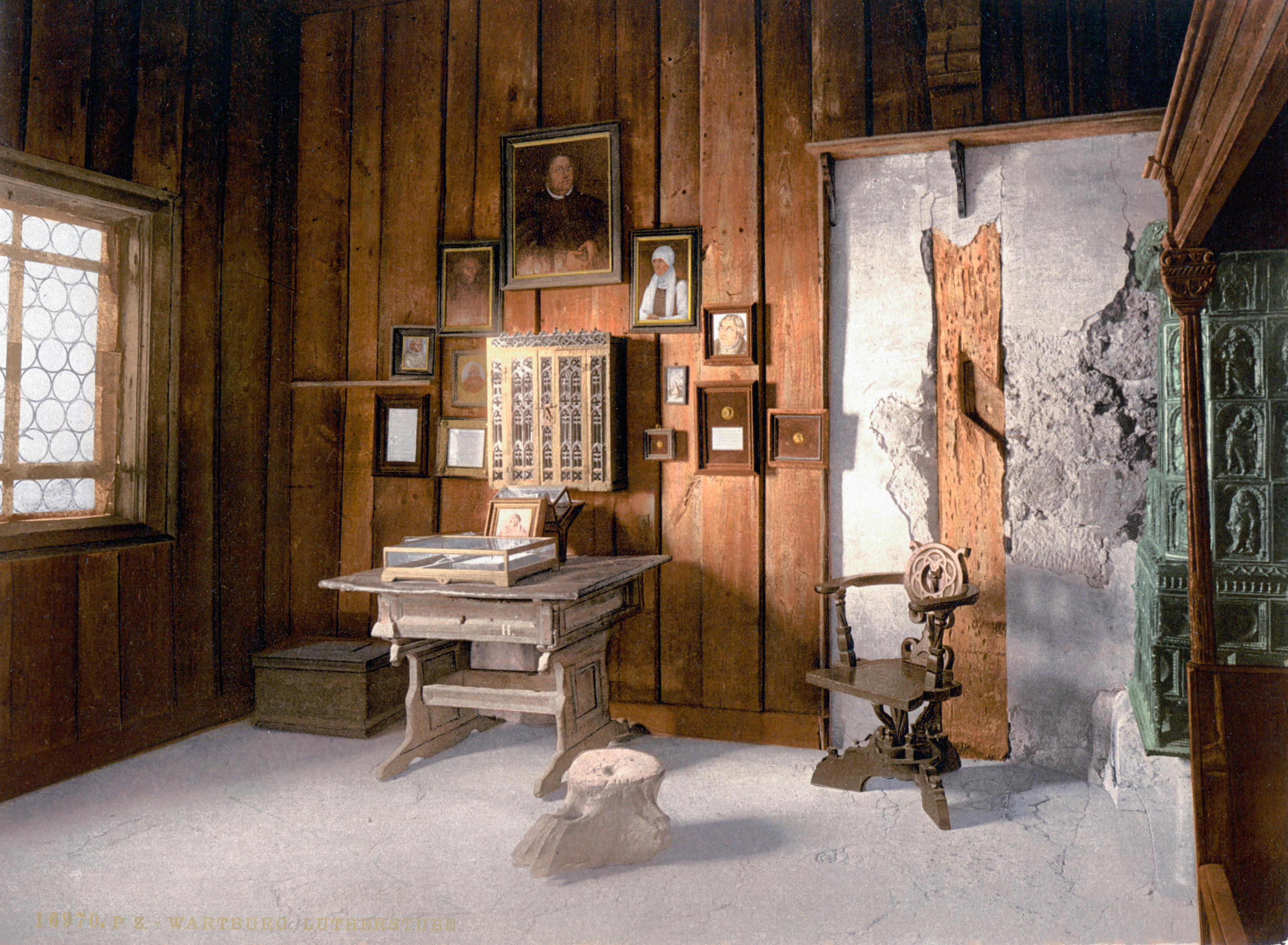 Wartburg, Lutherstube between 1890 and 1905